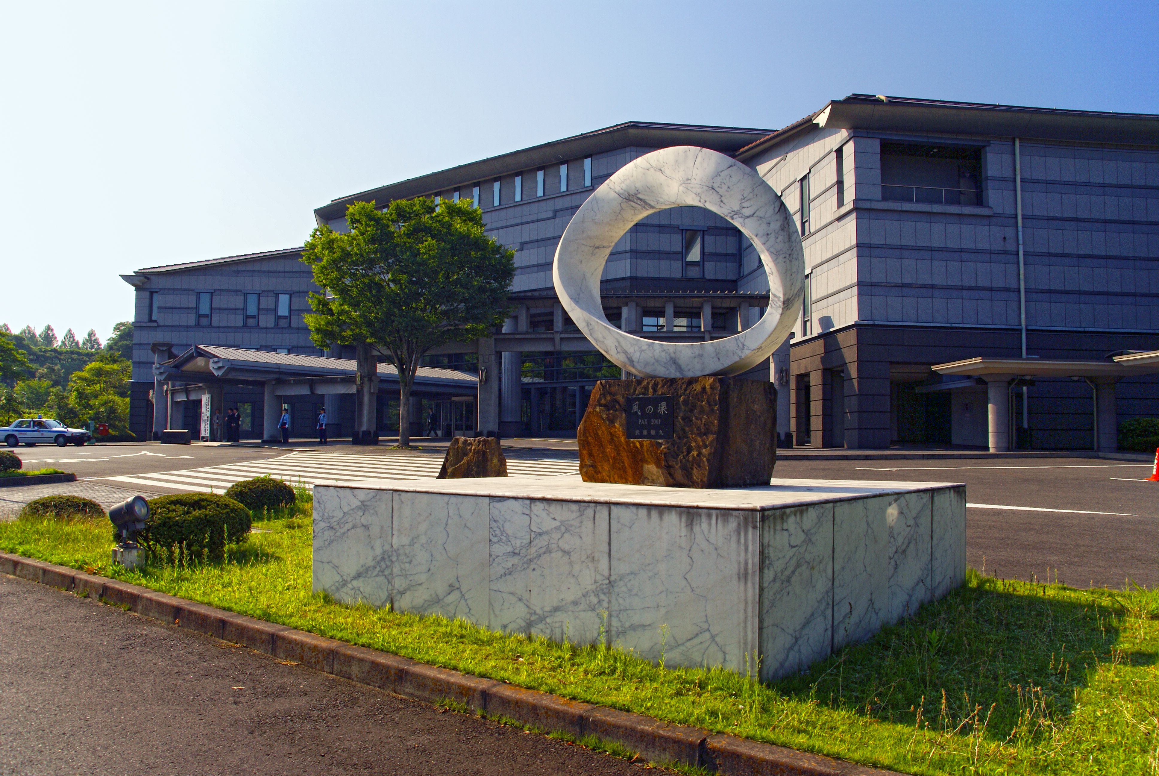 Sendai International Center in Sendai, Miyagi prefecture, Japan